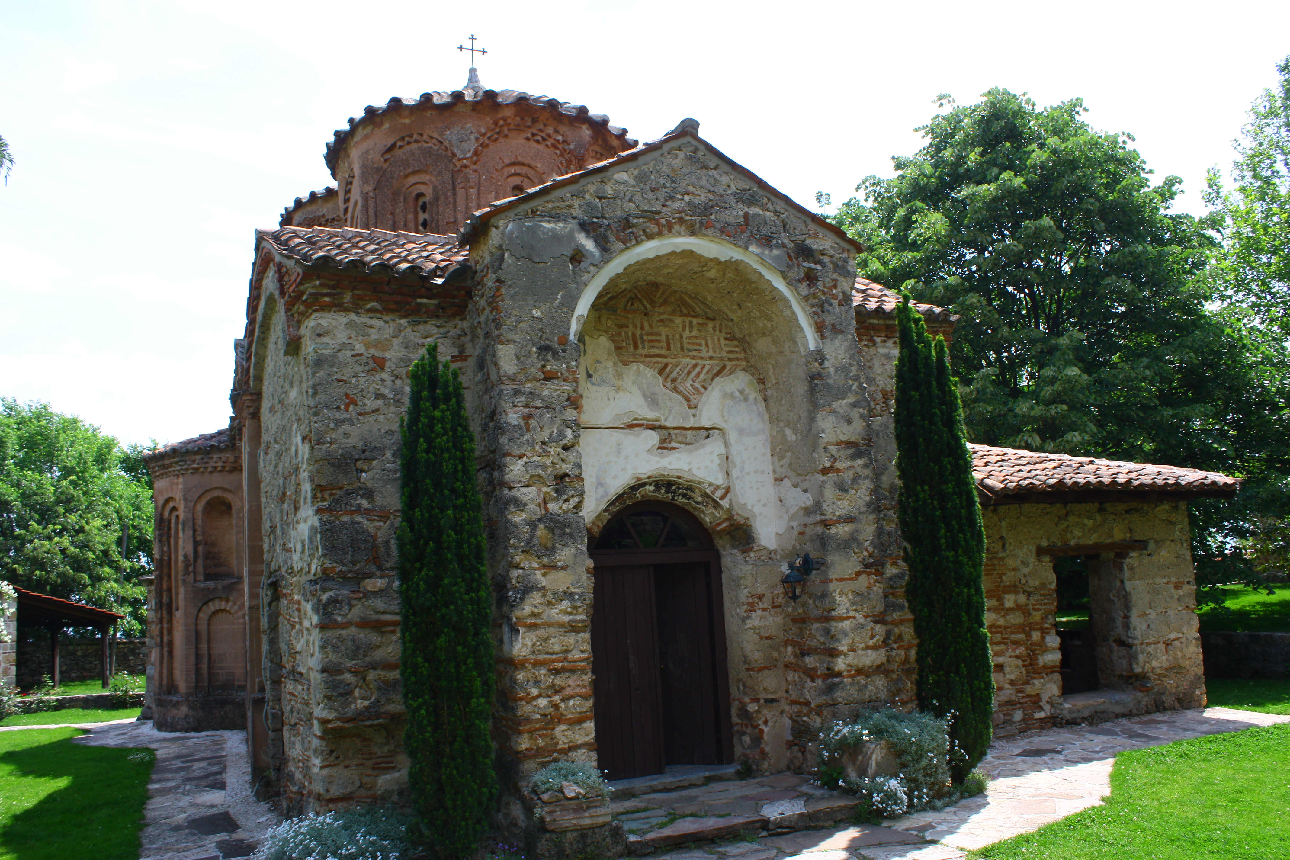 Nativity of the Theotokos Church in Veljusa near Strumica, Macedonia